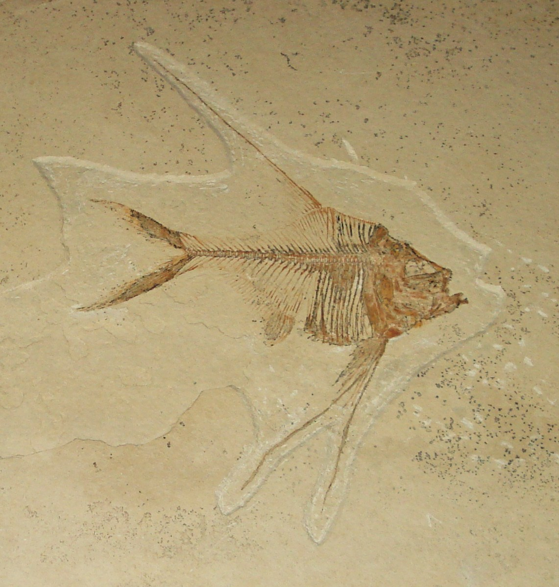 Fossil of Sorbinichthys elusivo, an extinct fish